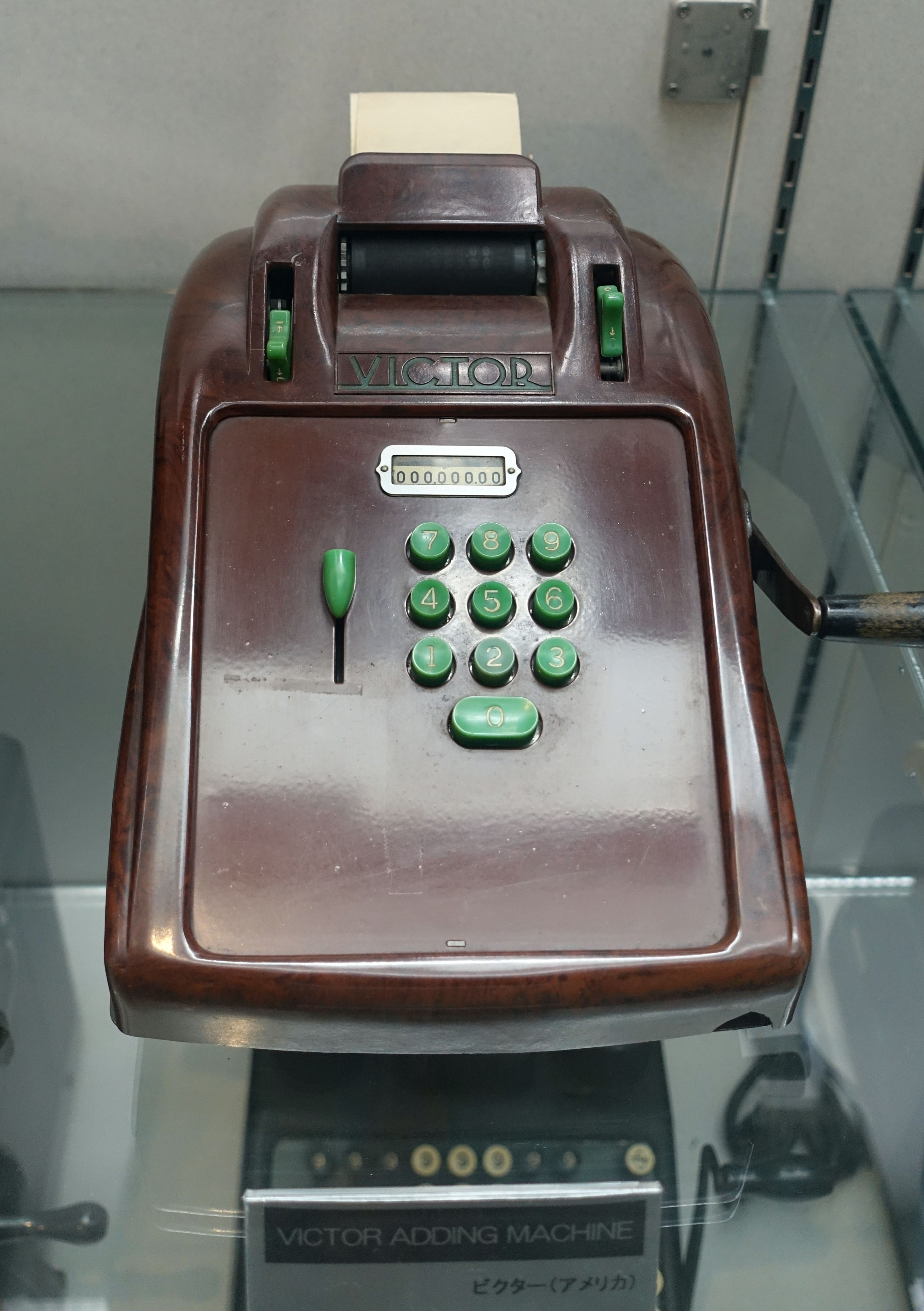 Exhibit in the Ridai Museum of Modern Science, Tokyo University of Science, Kagurazaka campus - 1-3 Kagurazaka, Shinjuku-ku, Tokyo.